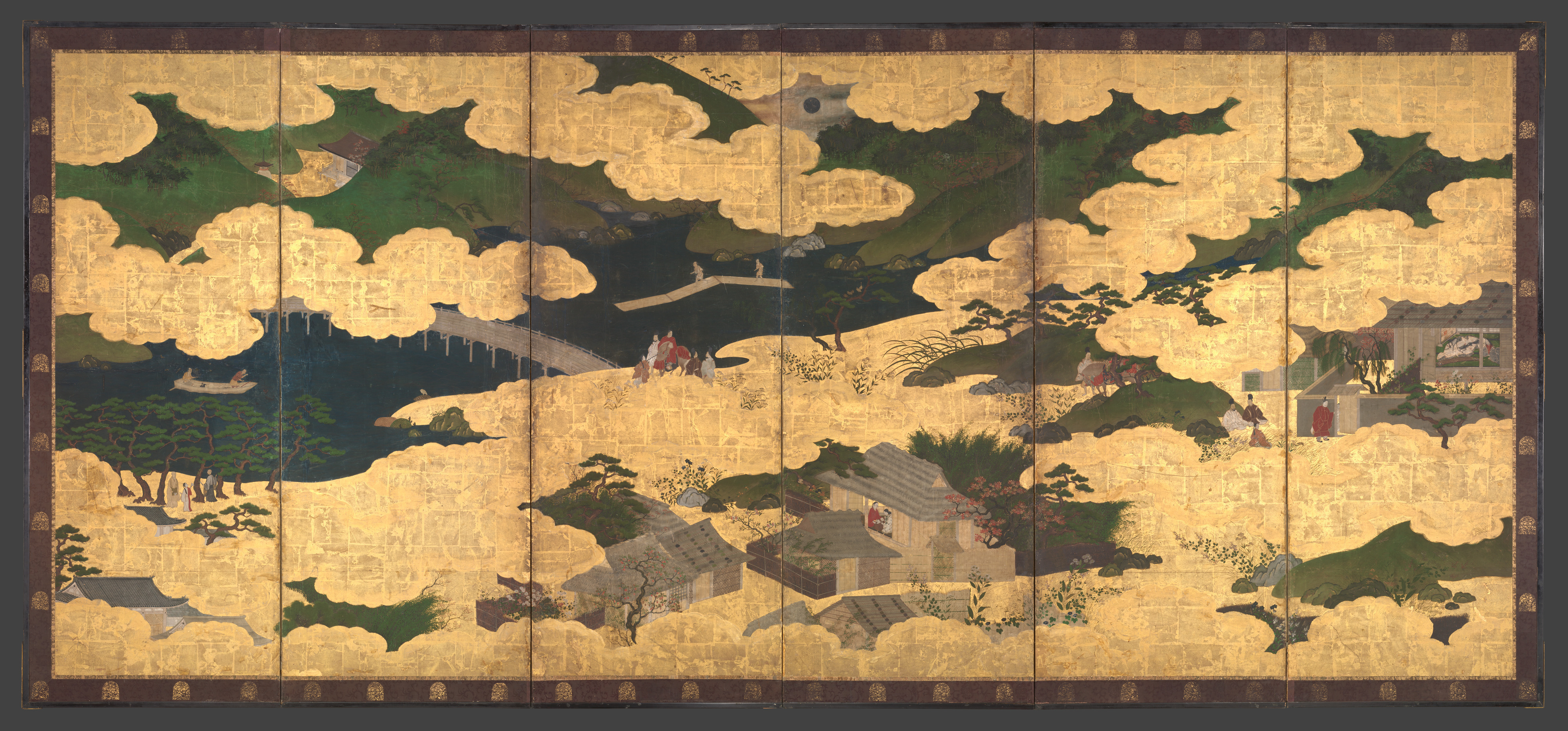 Japan; Screens; Screens